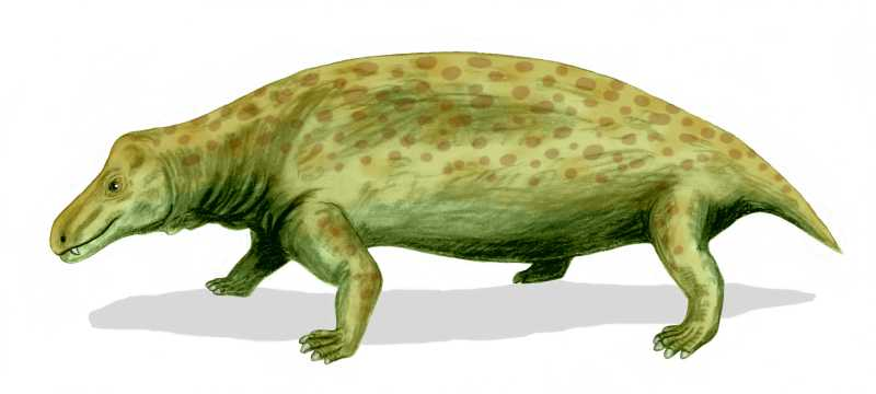 Jonkeria truculenta, a large dinocephalian from the Middle Permian of South Africa, pencil drawing and digital coloring